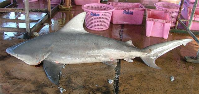 Pigeye shark (Carcharhinus amboinensis) at Phuket Fishing Port, Thailand